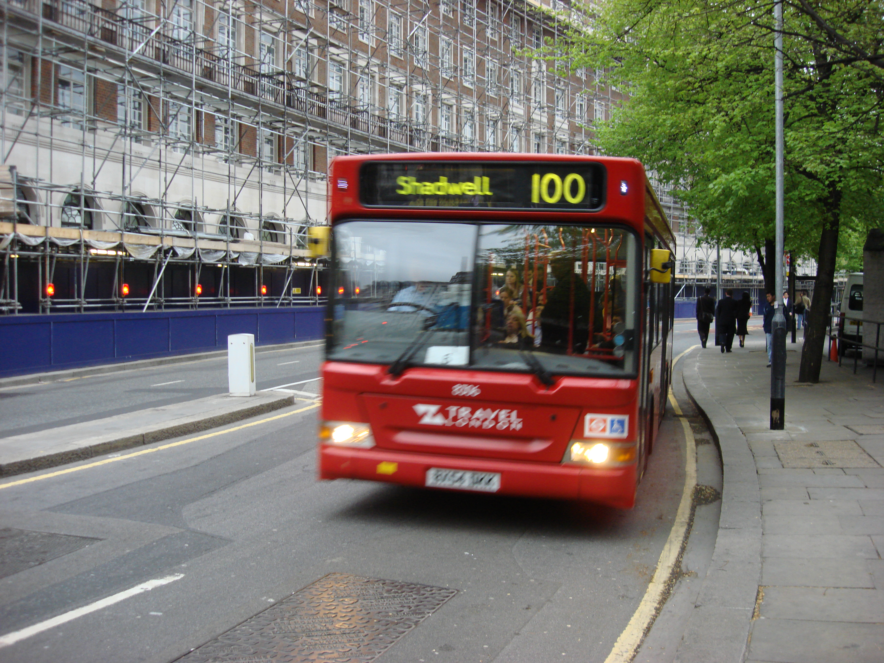 Travel London 8306 (BX54 DKK) on London Buses route 100.